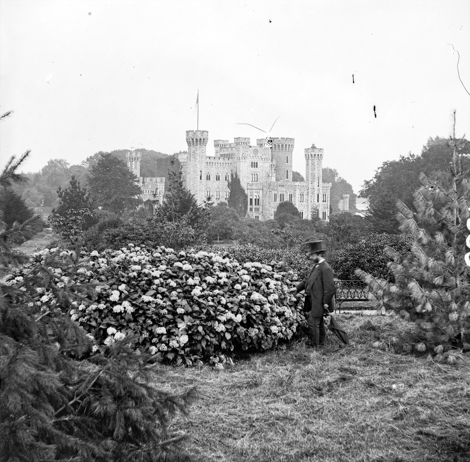 It certainly does look Mock Gothic, but we didn't have a name for this castle until today. I'd looked at some of the usual suspects around the country but couldn't find a match. Now thanks to franmol, we know this is Johnstown Castle in Wexford... Date: 1860-1883 NLI Ref.: STP_1555